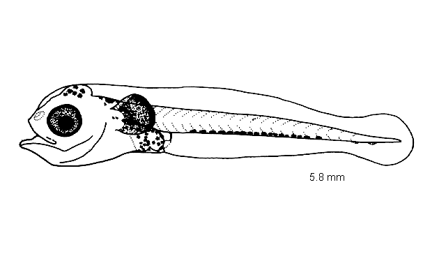 Drawing of a larvae of Sebastes goodei.